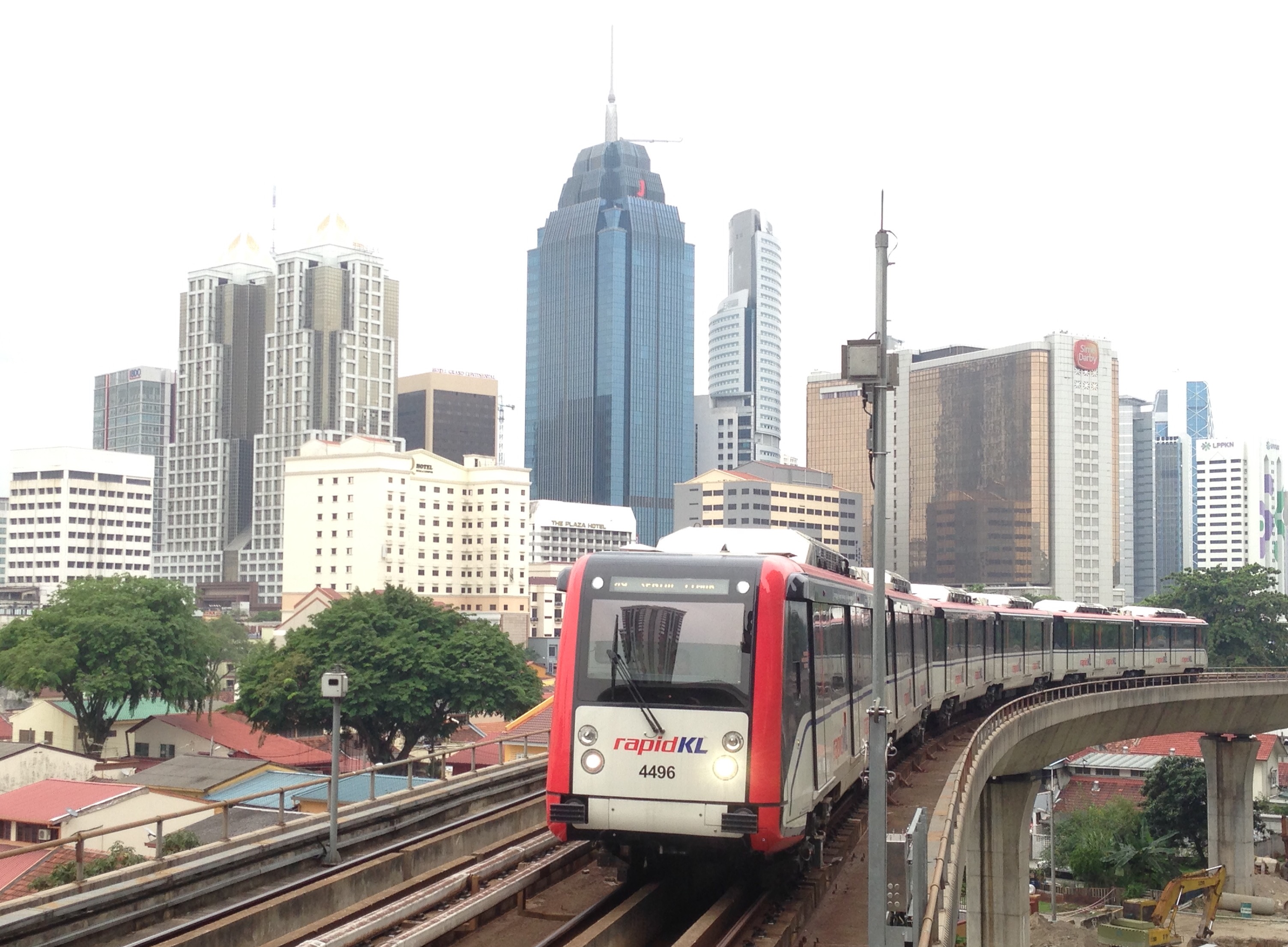 A view from PWTC station toward Kuala Lumpur city centre